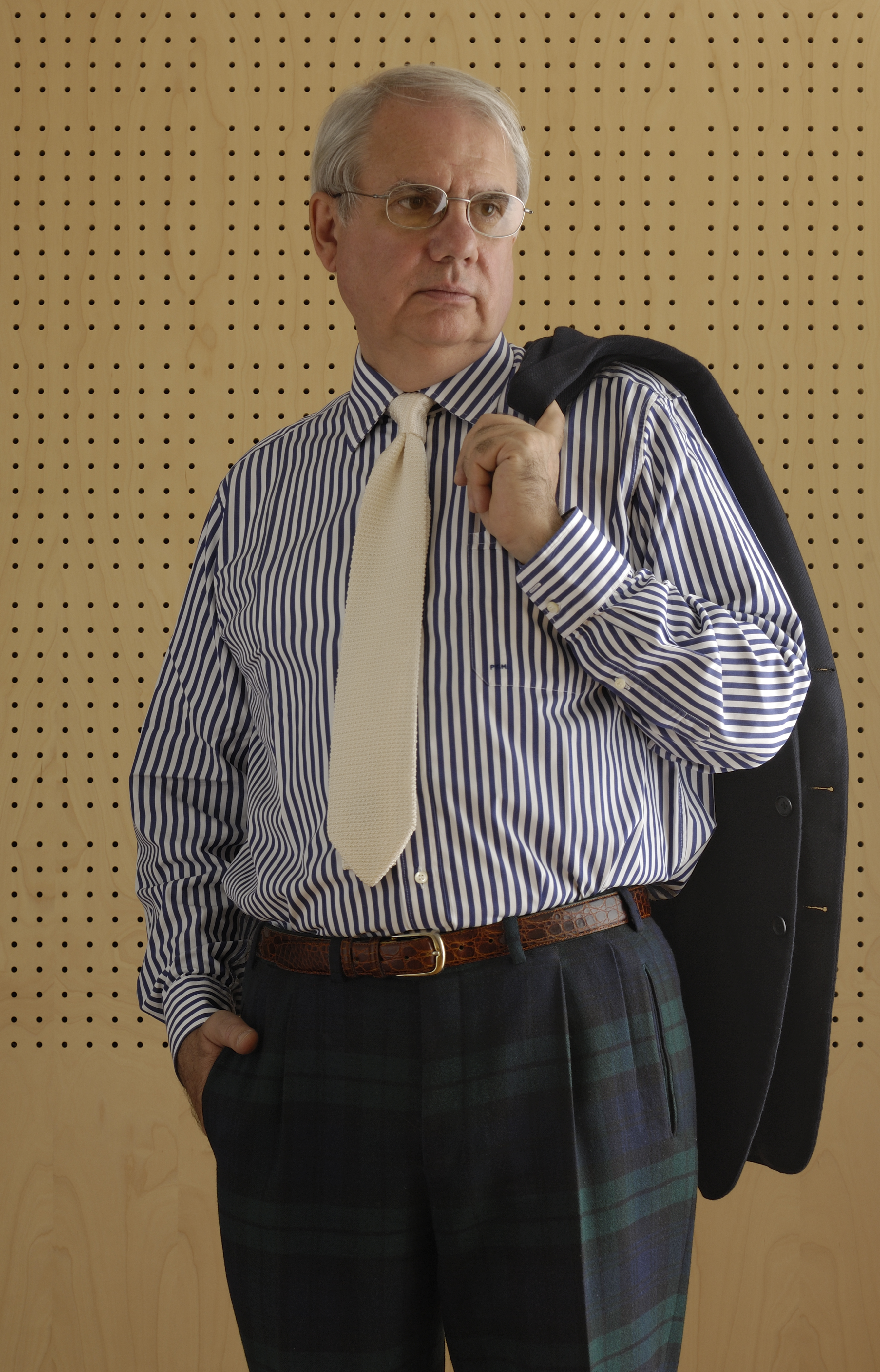 Picture of the Architect Pier Paolo Maggiora, ArchA SpA, Turin, Italy.